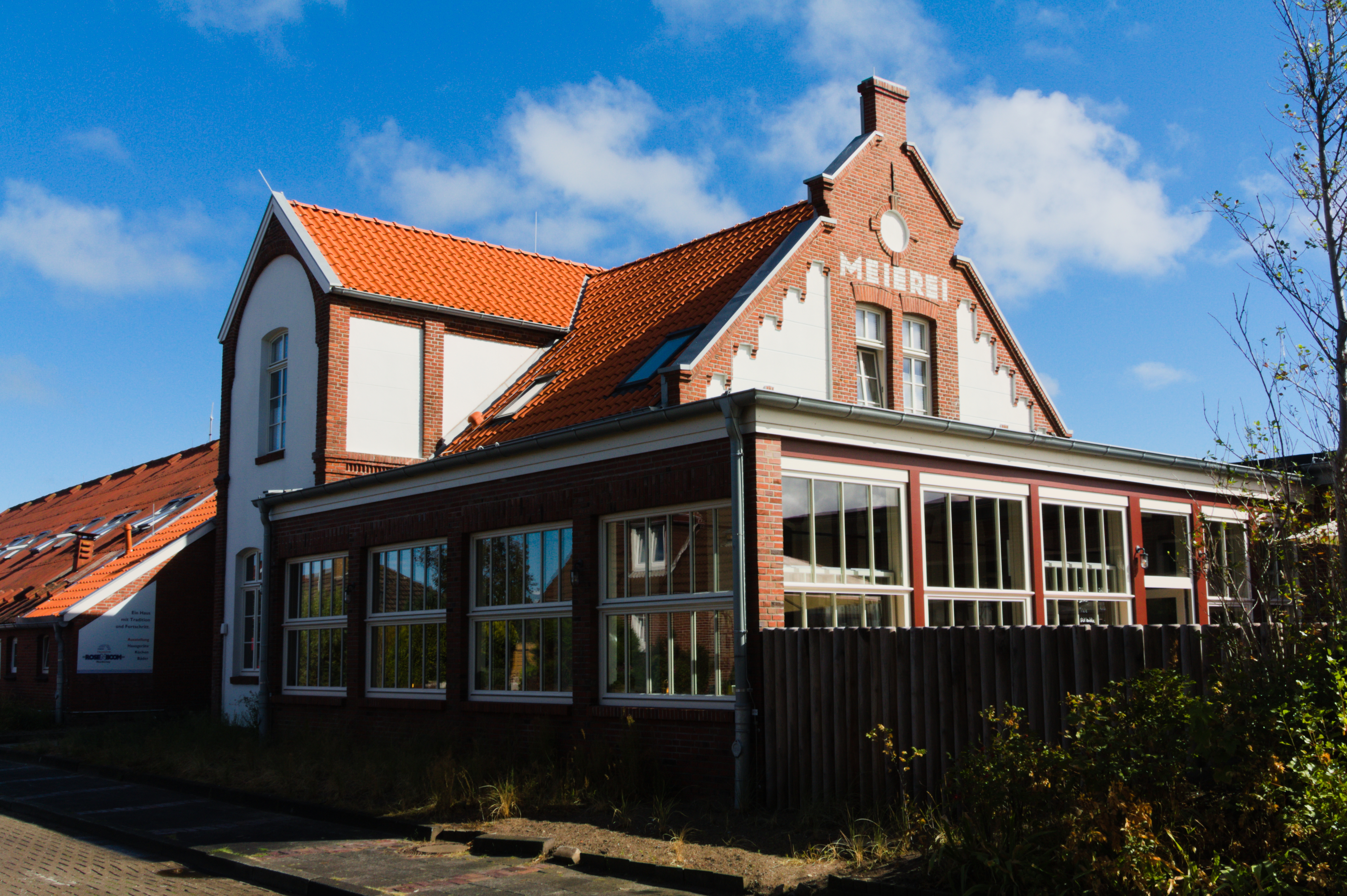 This is a photograph of an architectural monument. .00100M001